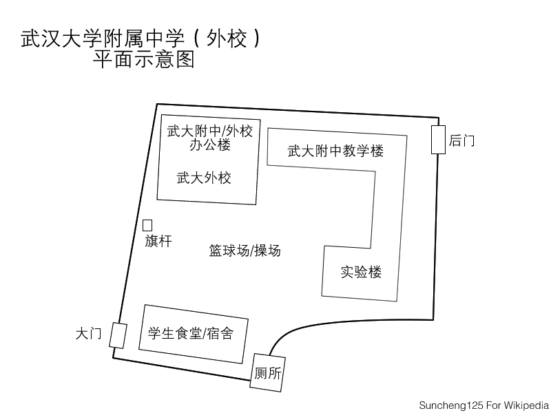 Map of Middle School affiliated to Wuhan University.